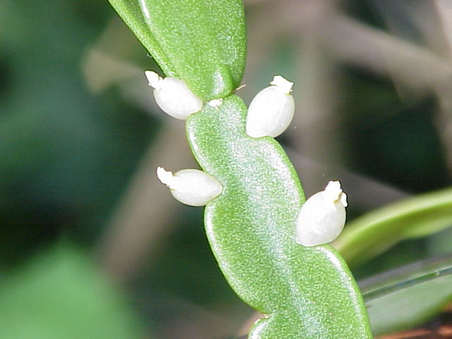 Species: Rhipsalis rosea Family: ' Image No. 2